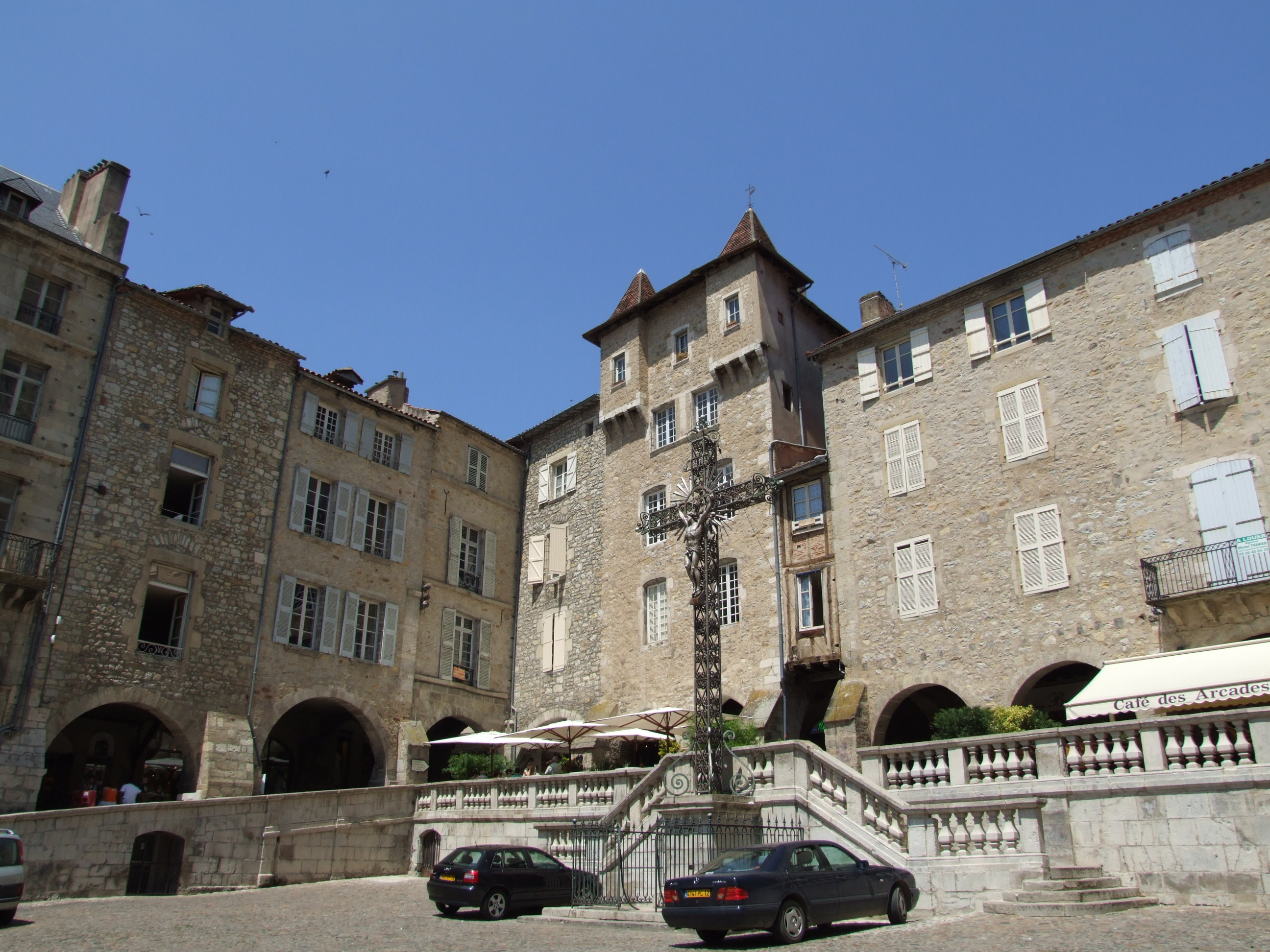 Villefranche-de-Rouergue, Aveyron, FRANCE